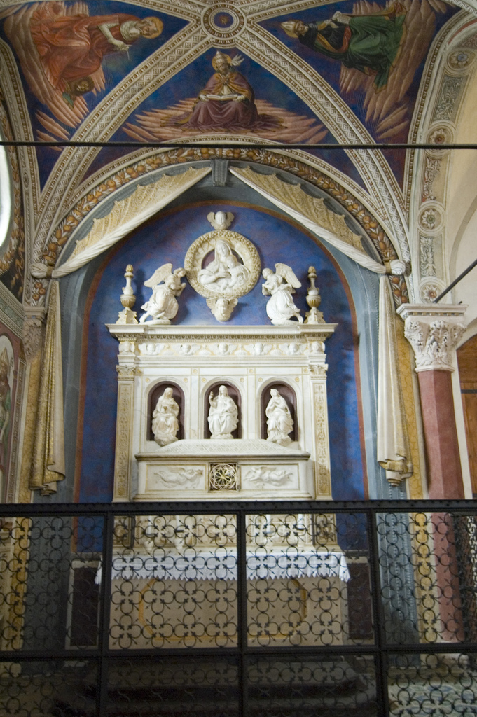 see above